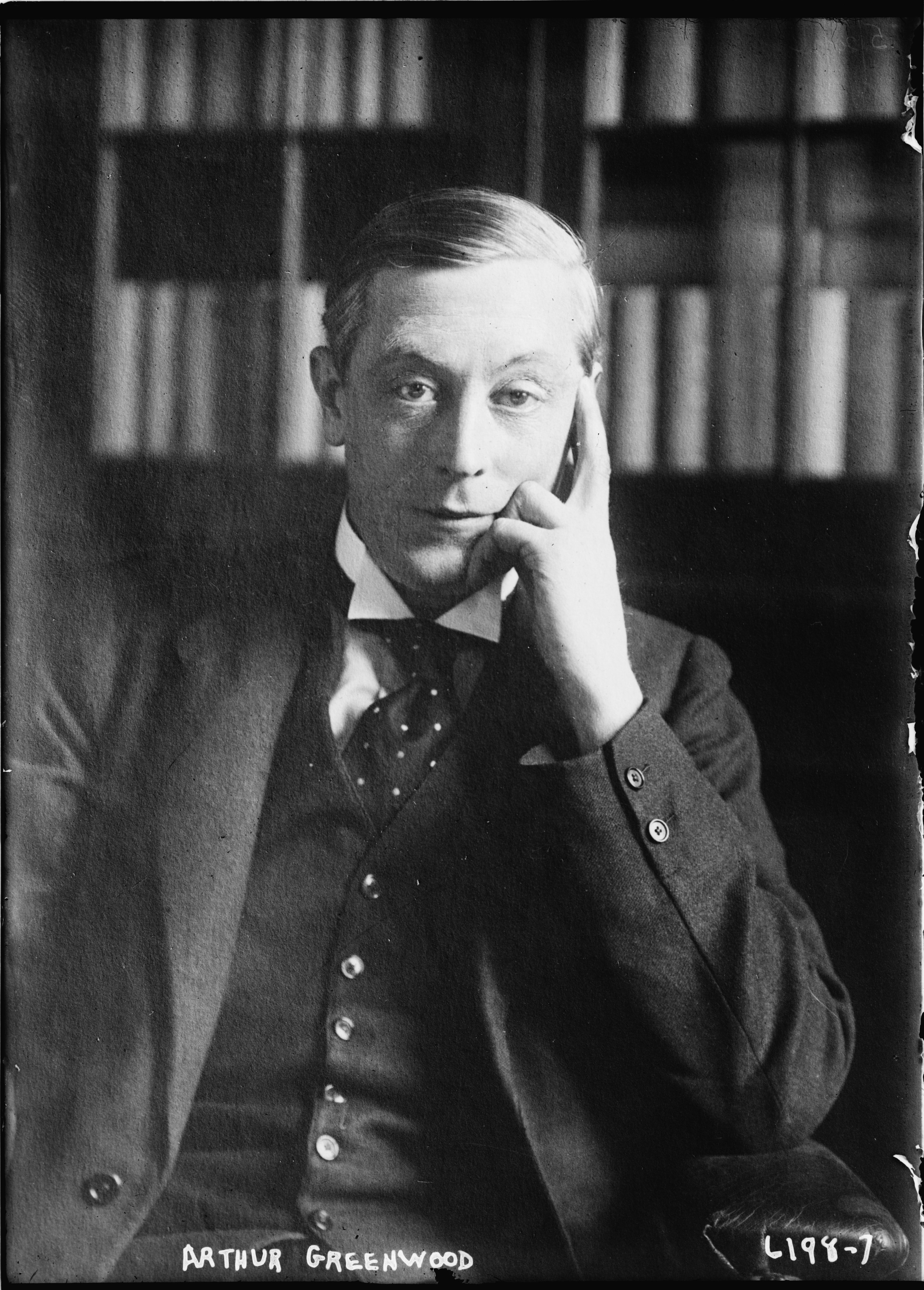 Title: Arthur Greenwood Abstract/medium: 1 negative : glass ; 5 x 7 in. or smaller.